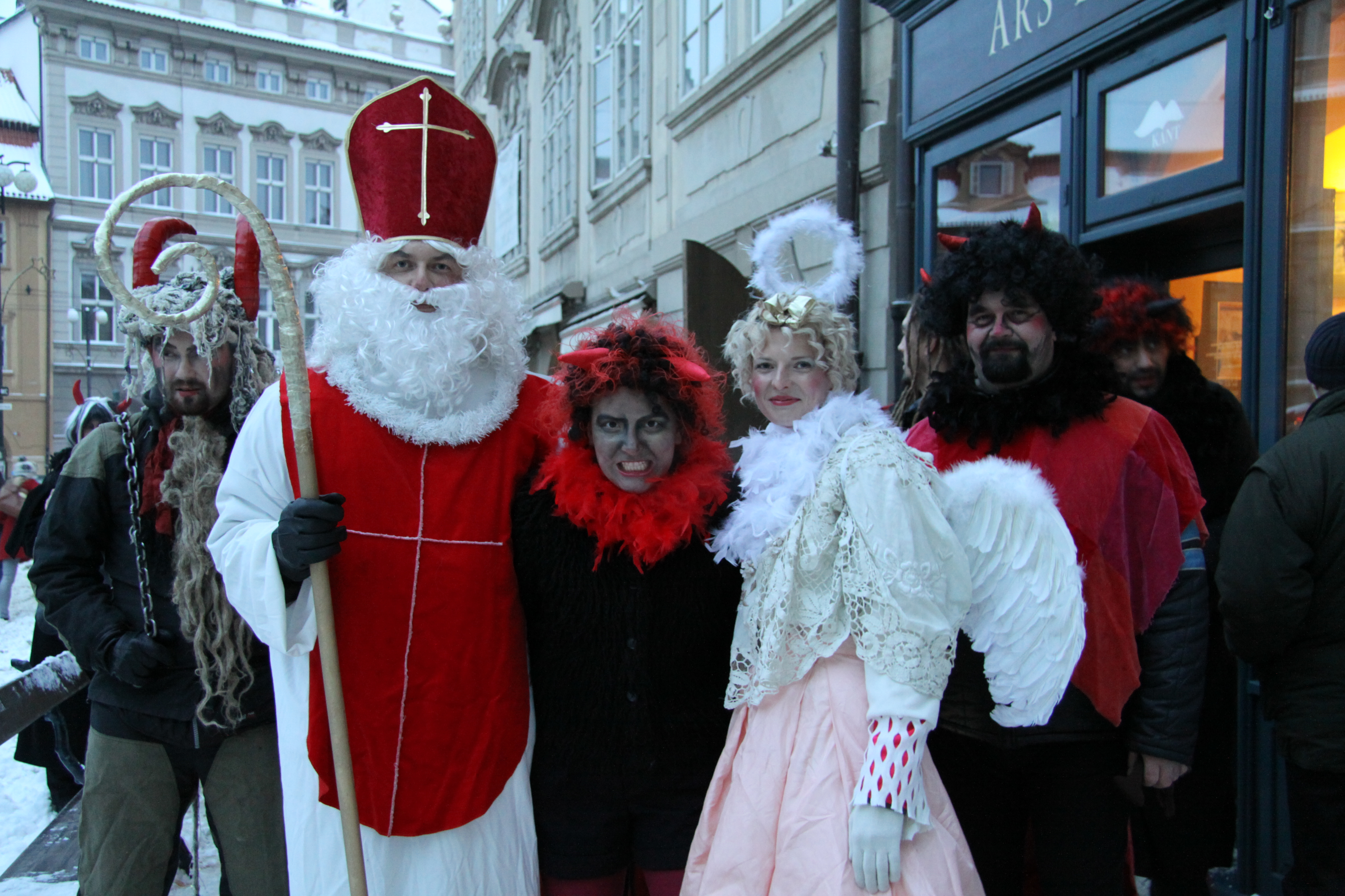 Traditional celebration of Saint Nicholas day in Czech Republic, Malá Strana, Prague Personality rights warning Although this work is freely licensed or in the public domain, the person(s) shown may have rights that legally restrict certain re-uses unless those depicted consent to such uses. In these cases, a model release or other evidence of consent could protect you from infringement claims.